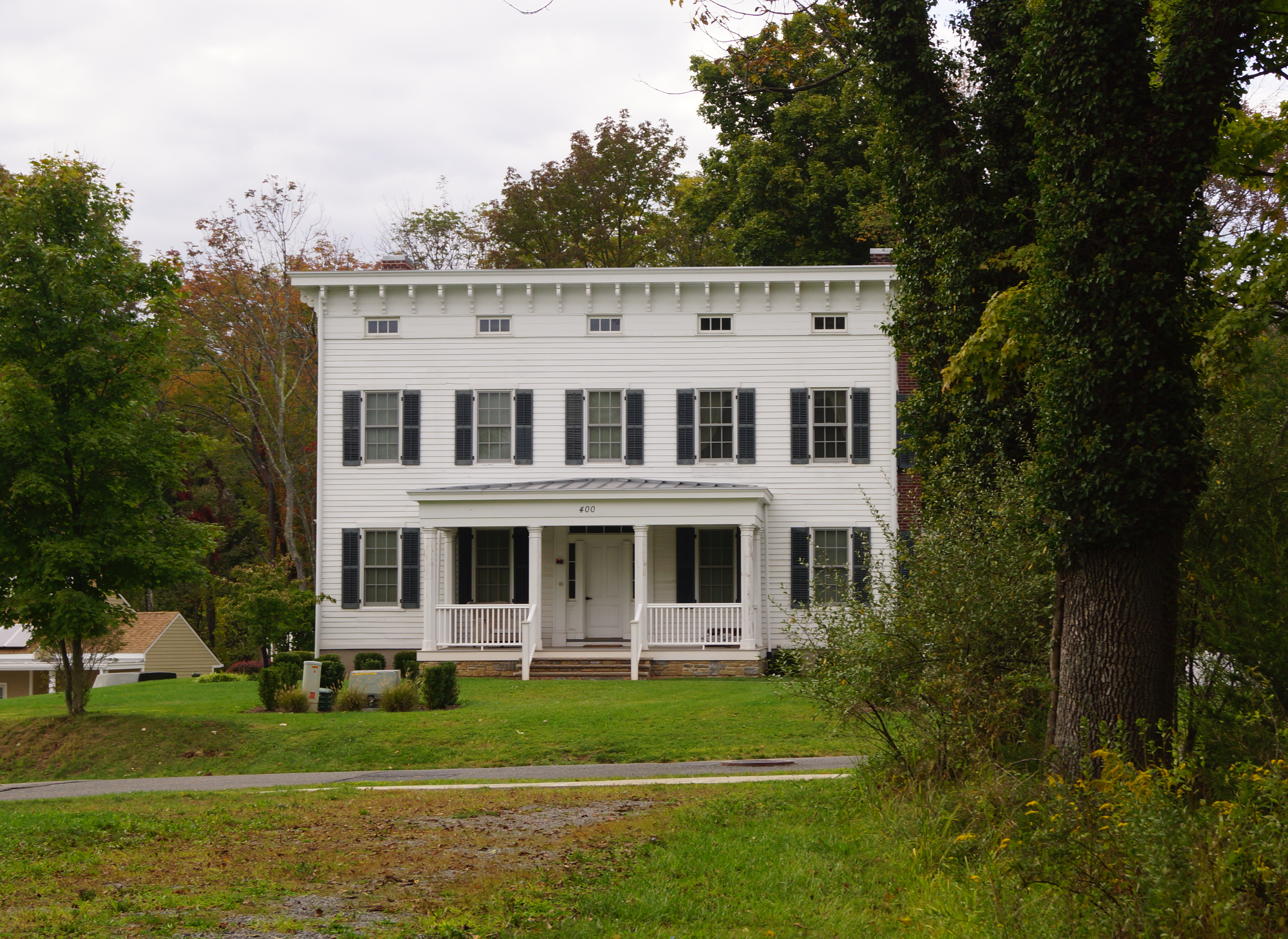 Bartles House